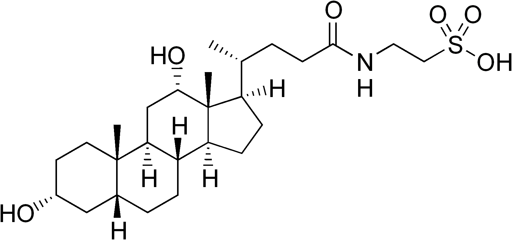 chemical structure of taurodeoxycholic acid